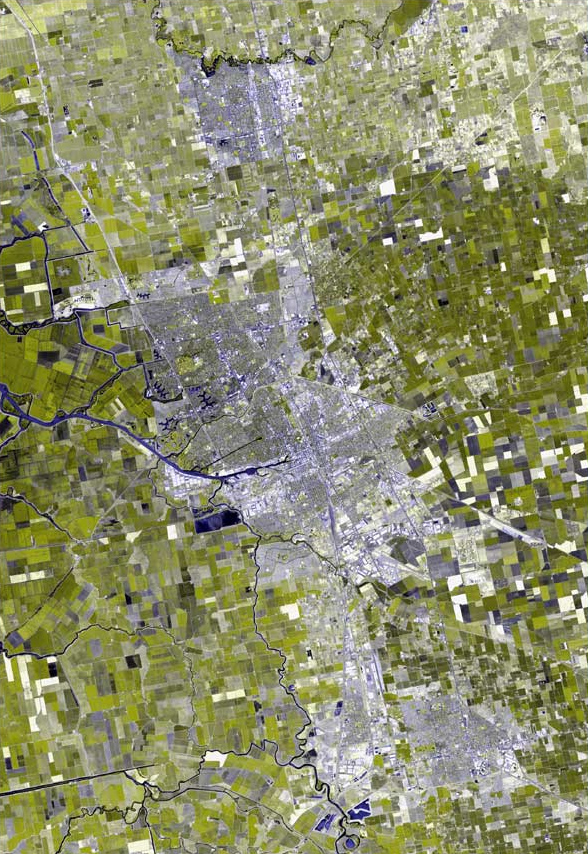 The raw satellite imagery shown in these images was obtain from NASA and/or the US Geological Survey. Post-processing and production by